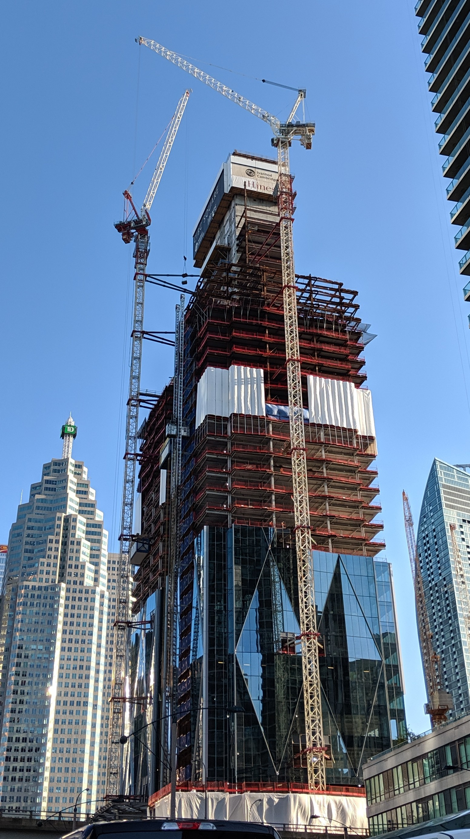 CIBC Square from Harbour Street